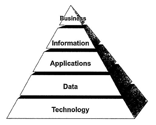 DOE Information Architecture Conceptual Model